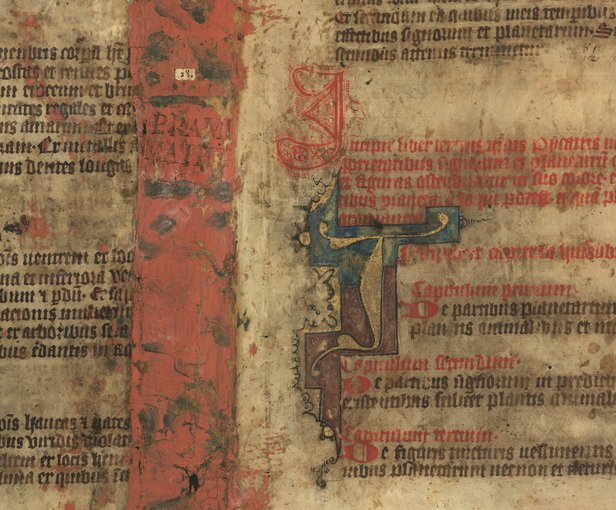 The Picatrix was a book of magic and astronomy created during the Middle Ages, popular in Europe at the time, even though the original manuscript was likely created in the Middle East. This photo shows a fragment of the Picatrix kept within the Slovak National Library.